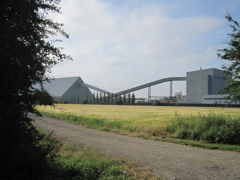 The British Gypsum Sherburn Works on Fenton Lane